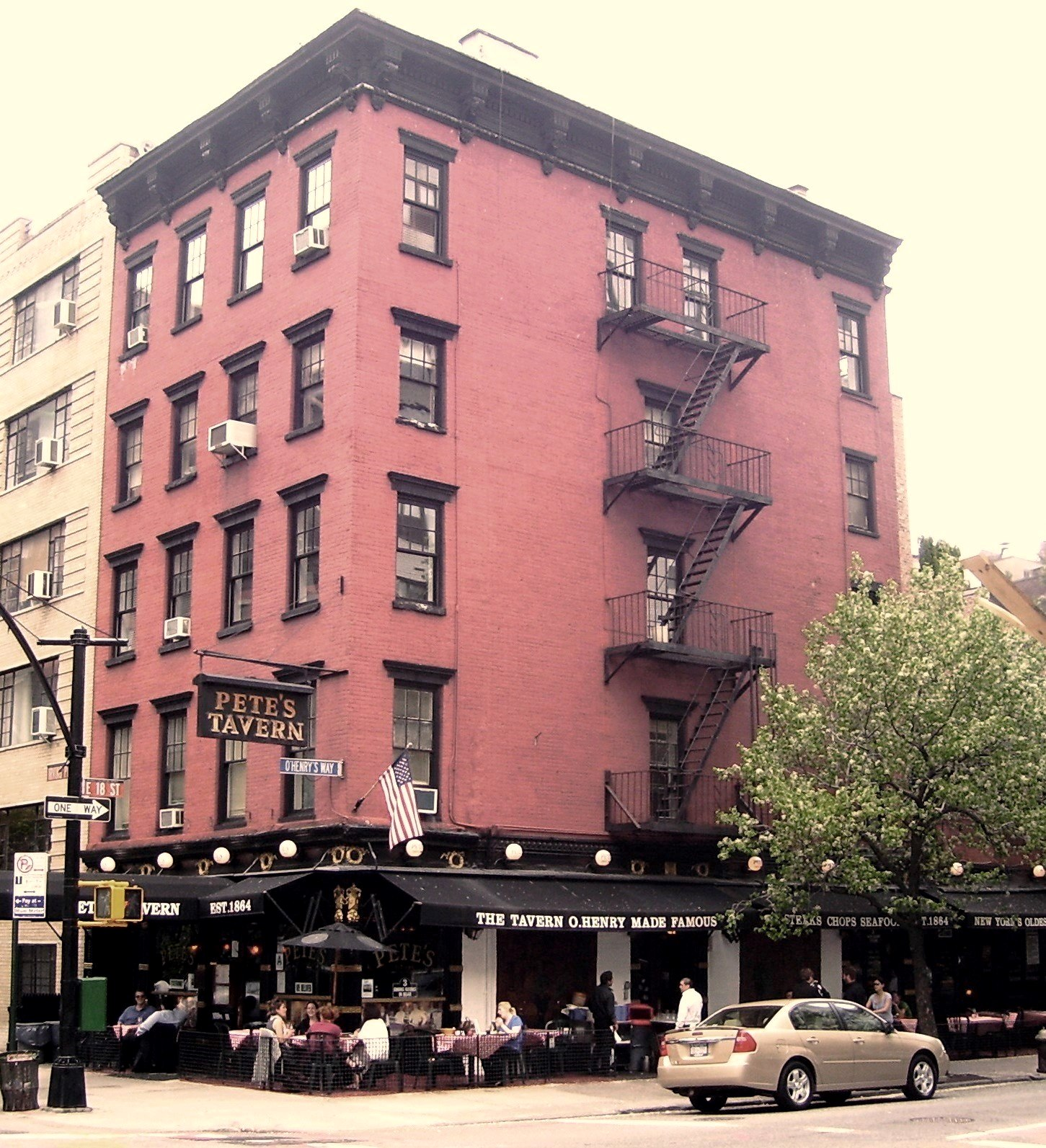 Pete's Tavern building, seen from diagonally across Irving Place.